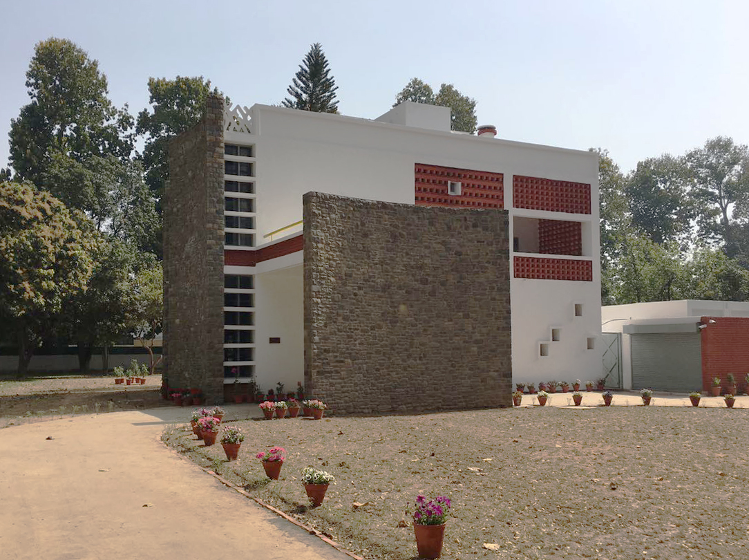 Pierre Jeanneret House (#57) in Sector 5, Chandigarh after being restored into a Museum on March 22 2017